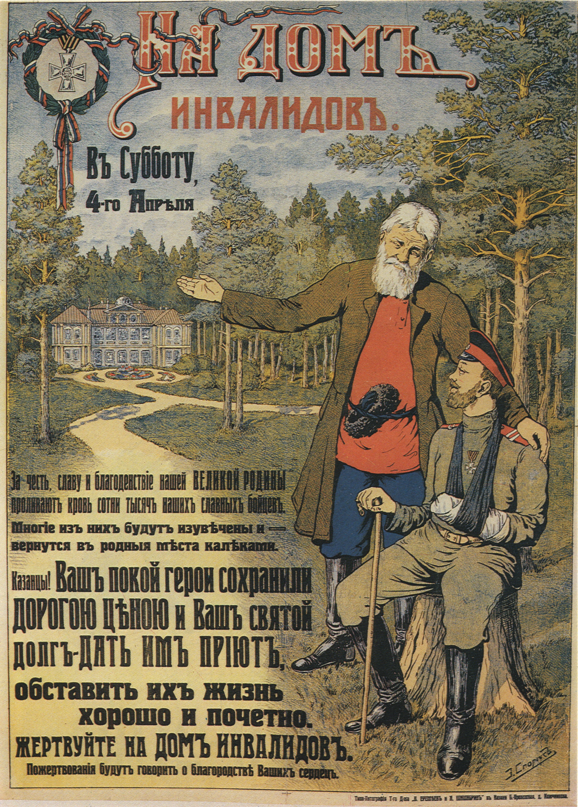 poster